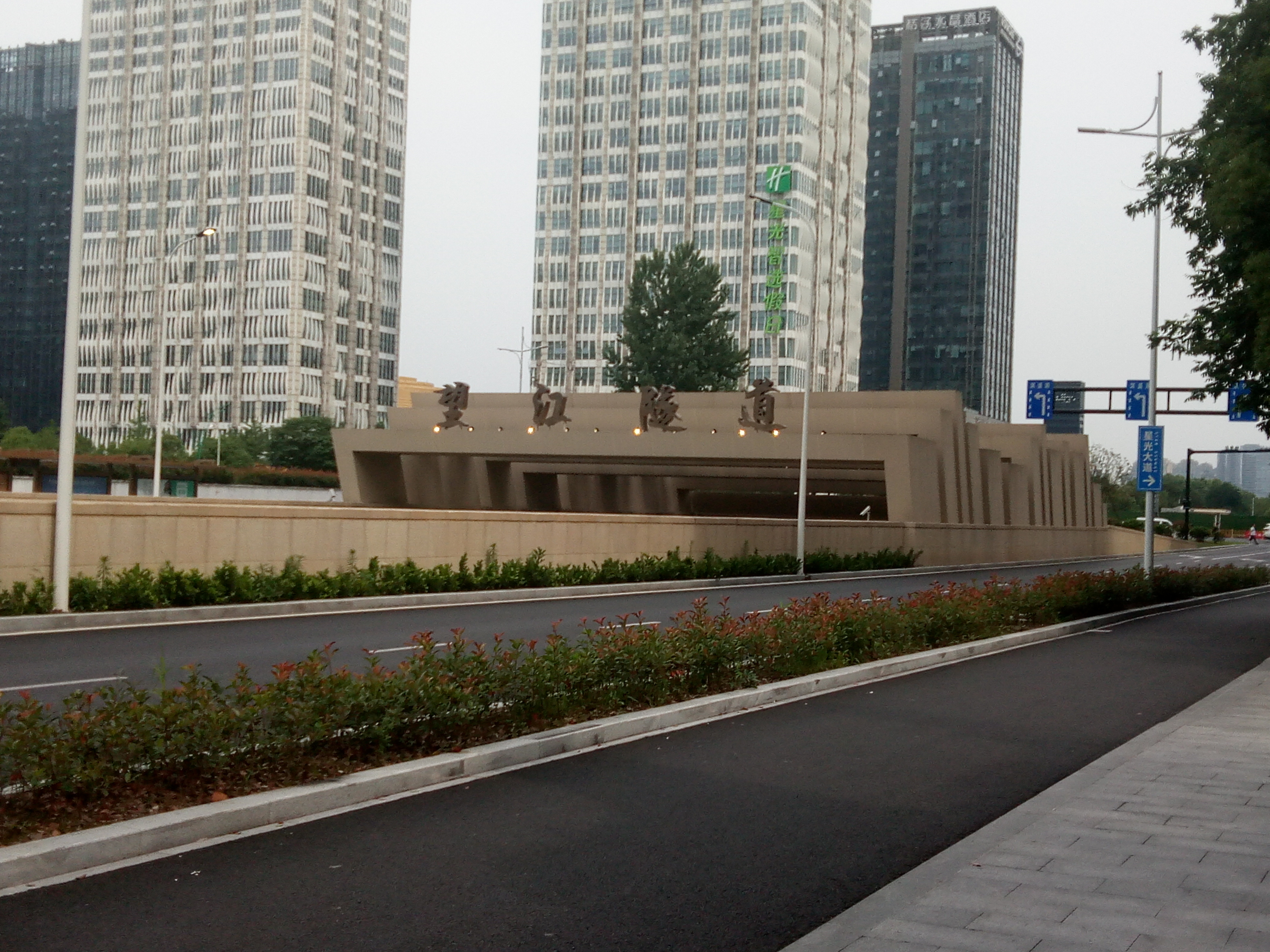 Wangjiang Tunnel in Binjiang District.